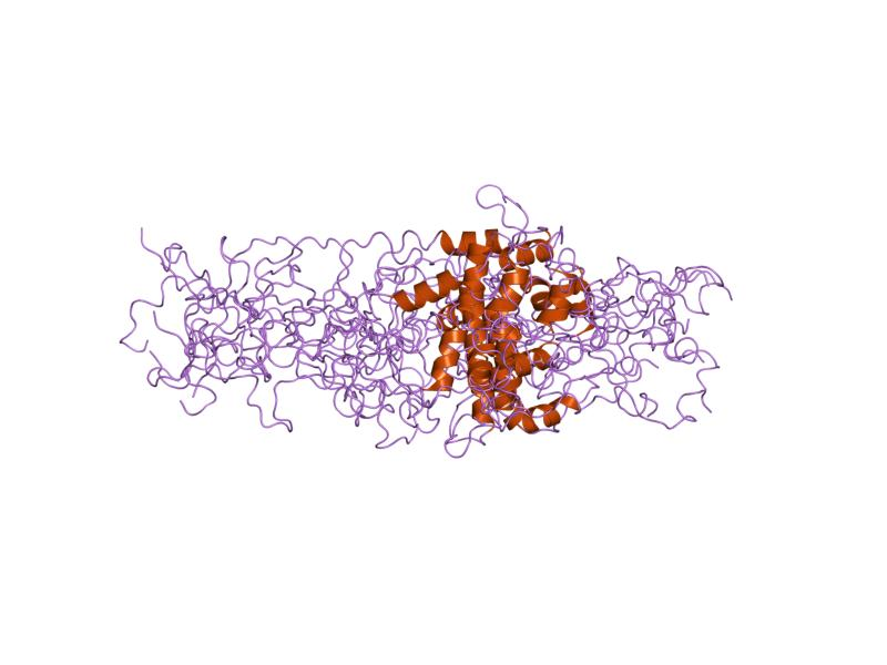 Cartoon representation of the molecular structure of protein registered with 1r5s code.